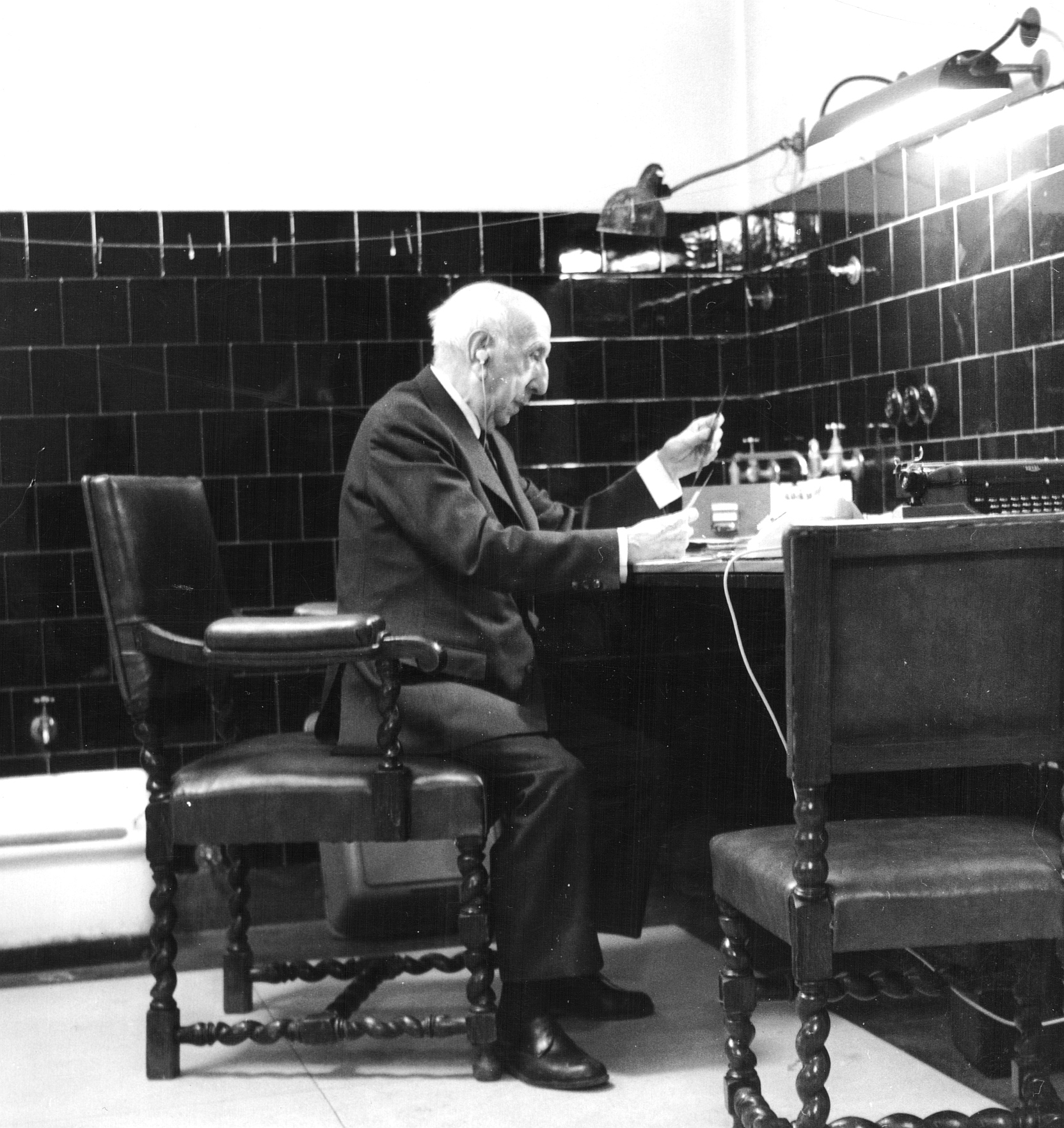 Spanish engineer, entrepreneur and photographer José Ortiz Echagüe in his 80ies in his home-lab